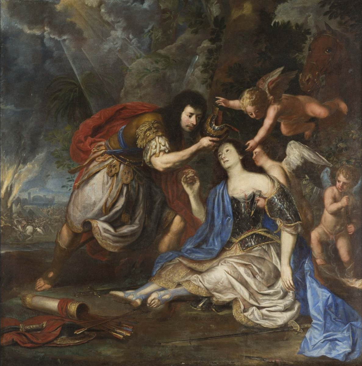 Part of a series with scenes from Torquato Tasso's 'Gerusalemme Liberata'. Possibly more, now unknown, paintings belonged to this series.